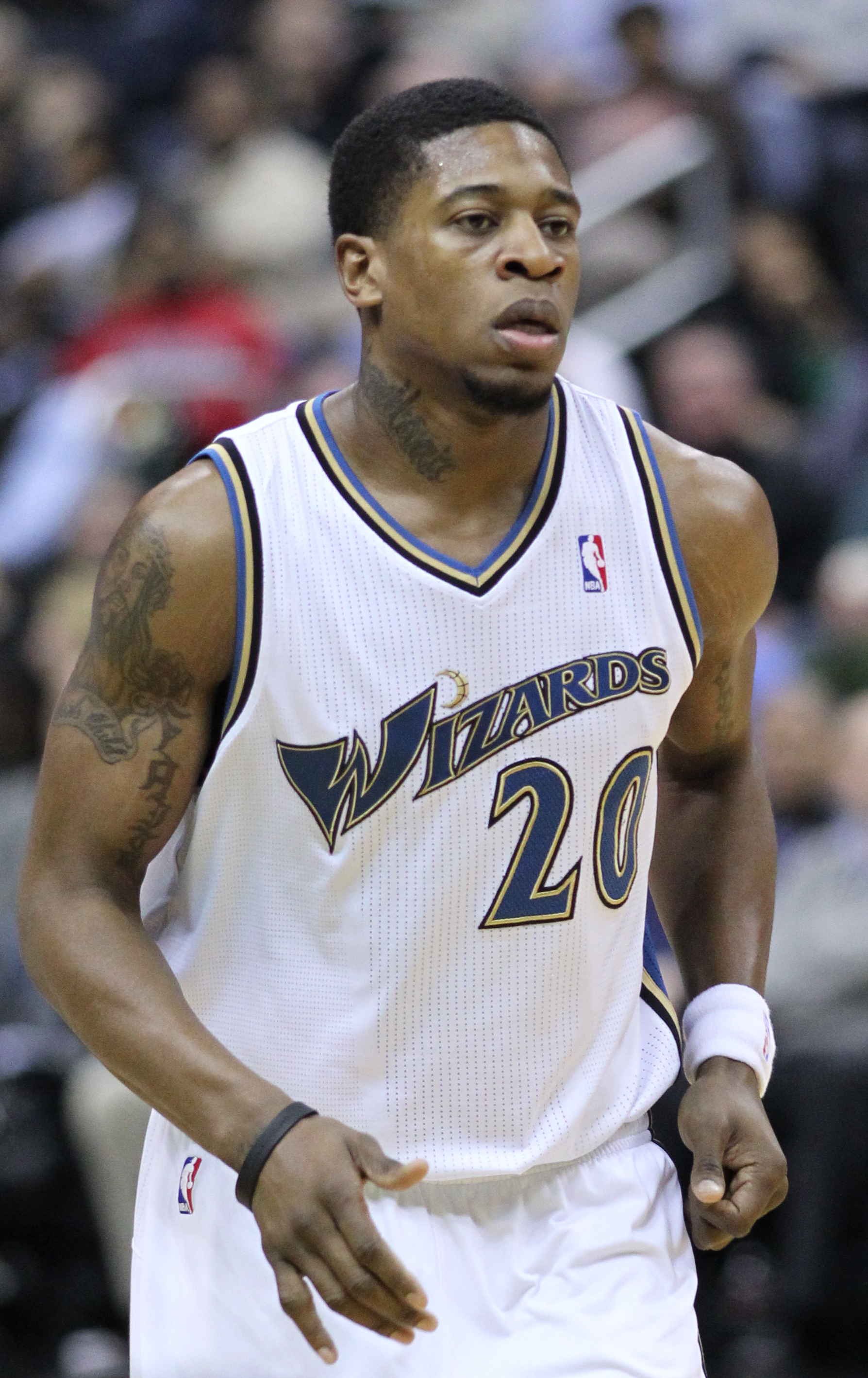 Washington Wizards v/s Denver Nuggets January 25, 2011